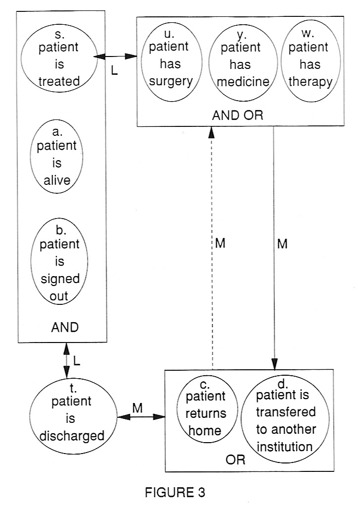 a model used in the paper logic and meaning